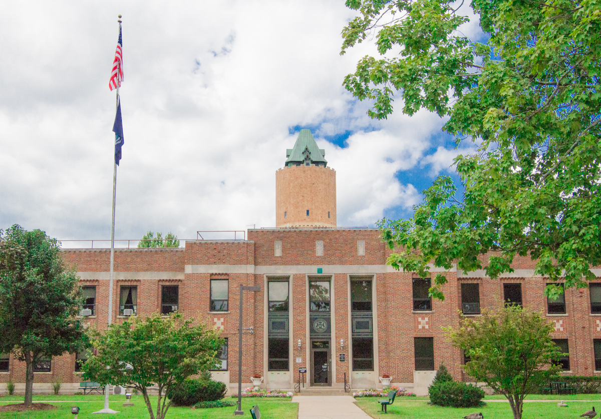 100px